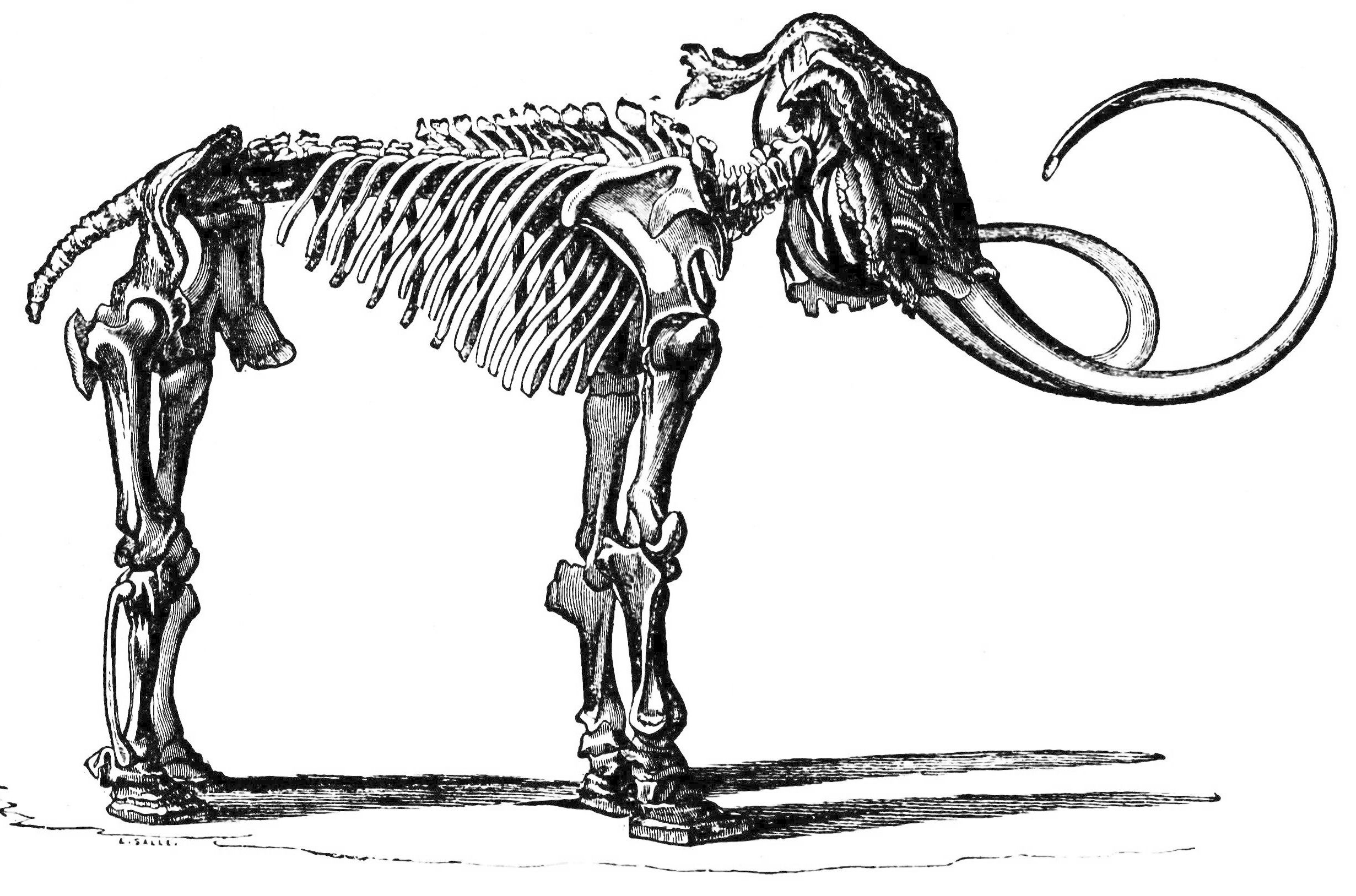 Skeleton of a mammoth